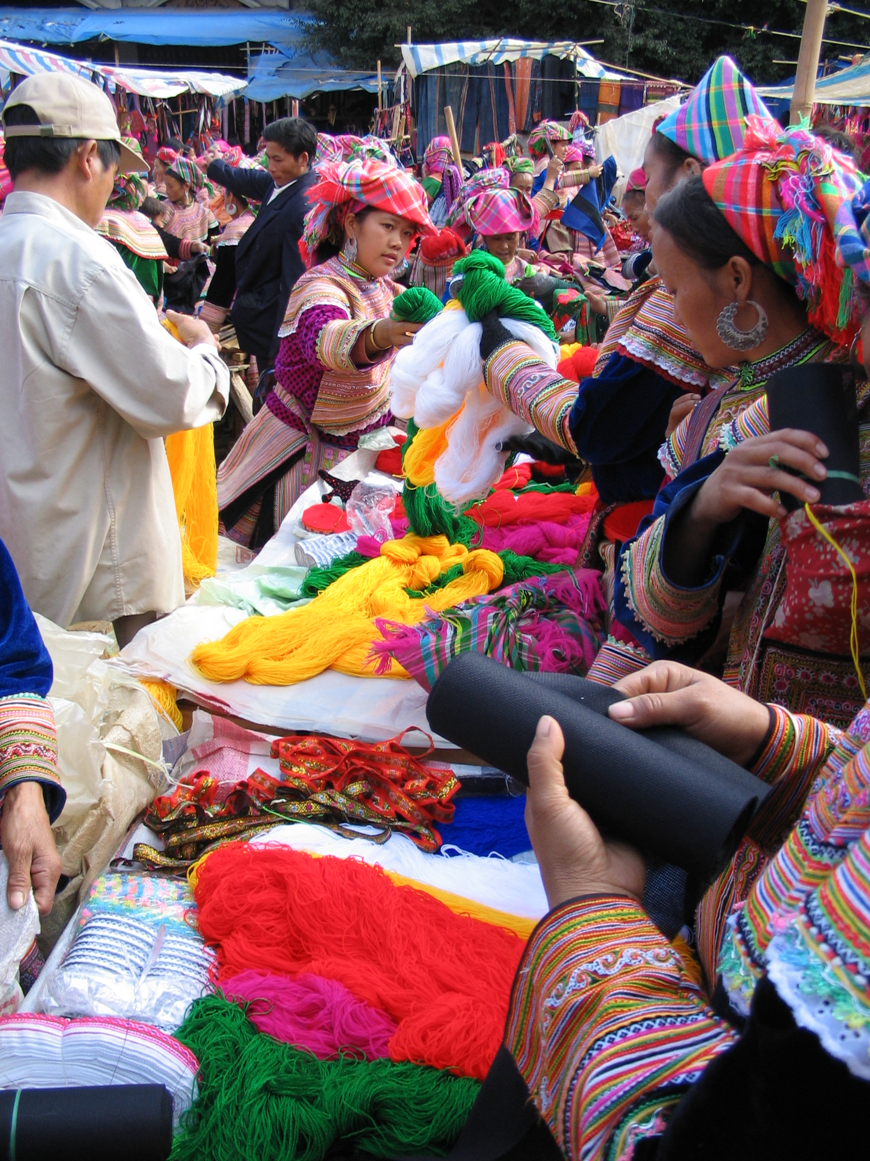 Market in Northern Vietnam (Bac Ha) by AlfredBoc Own work December 2005